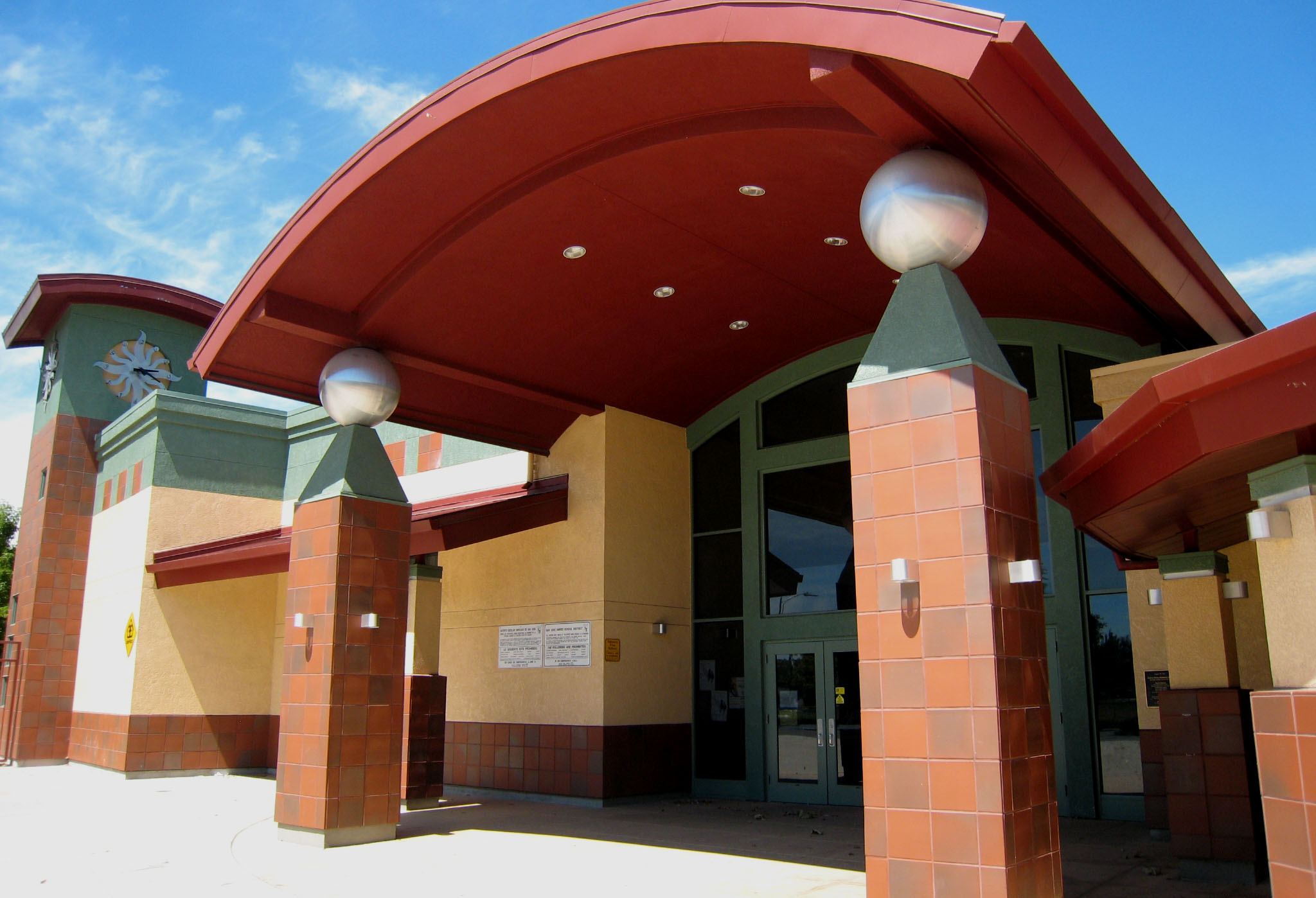 Photo of Hammer Montessori Magnet School, providing public Montessori education within the San Jose Unified School District